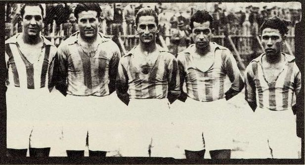 Olympiacos players, from left to right: Nikos Grigorátos, Christoforos Rággos, Giannis Vázos, Theologos Symeonídis, Michalis Anamaterós